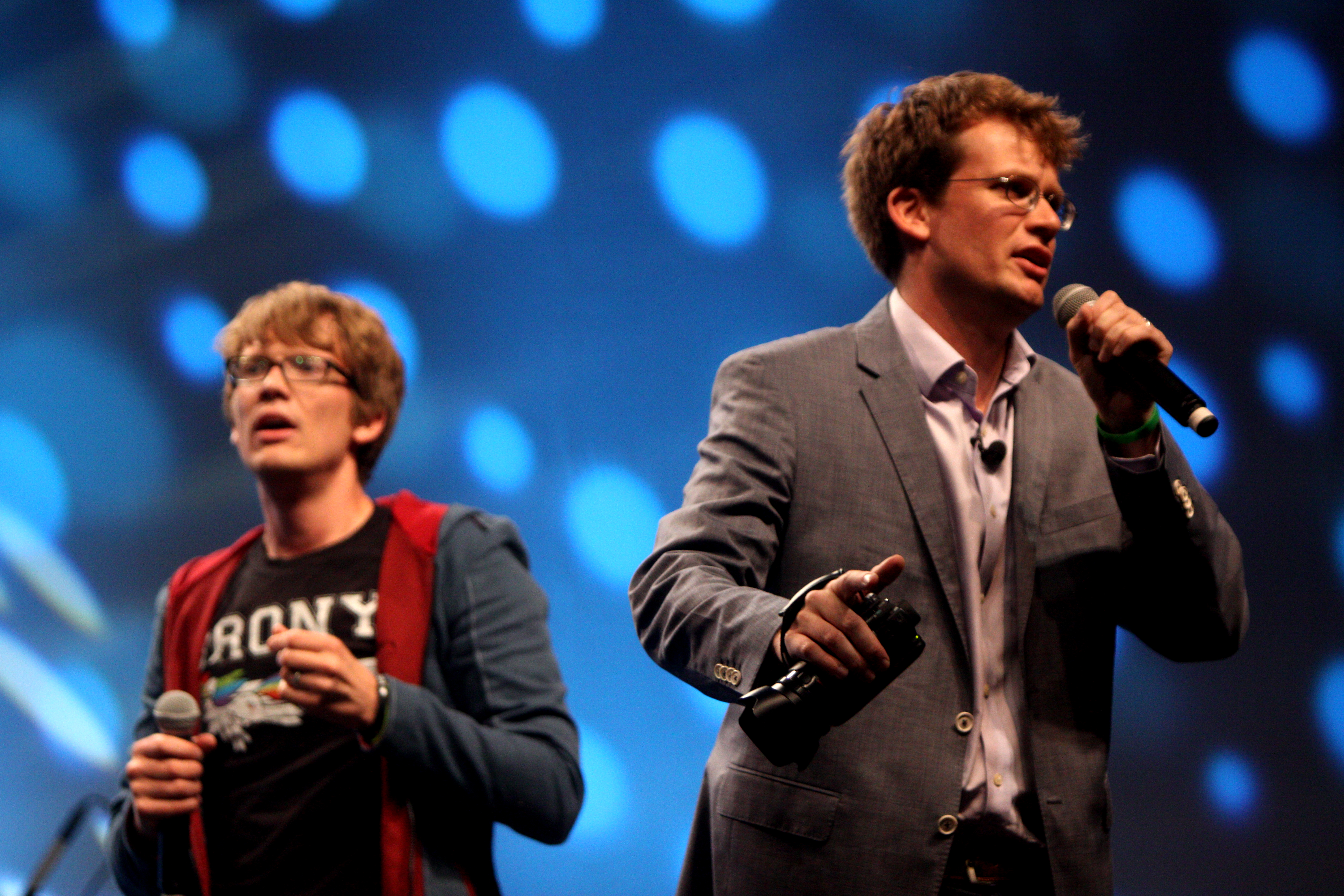 The Vlogbrothers at VidCon 2012.